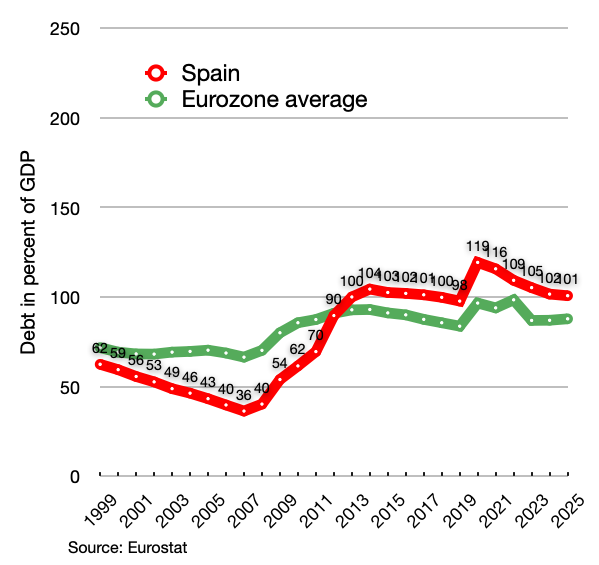 Spanish debt history since 1999. 1999-2011: Eurostat data: (see "General government gross debt") (see also: 2010-2015: Eurostat data: (latest update: October 2013) (2016-2017: Once Ernst & Young updates their forecasts, then we could use their data as well: 2015-2016 estimates from Ernst & Young using data from Oxford Economics ; (latest update: June 2012))